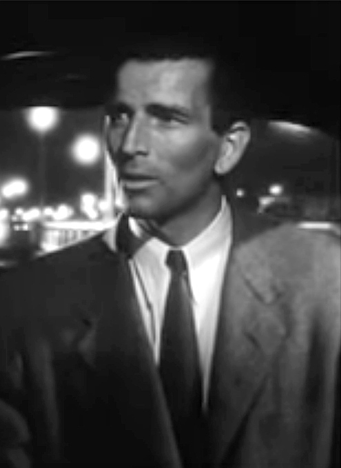 This image of Michael Rennie is a screenshot from a public domain trailer for the film The Day the Earth Stood Still - a 1951 US movie. Trailers for movies released before 1964 are in the public domain because they were never separately copyrighted.